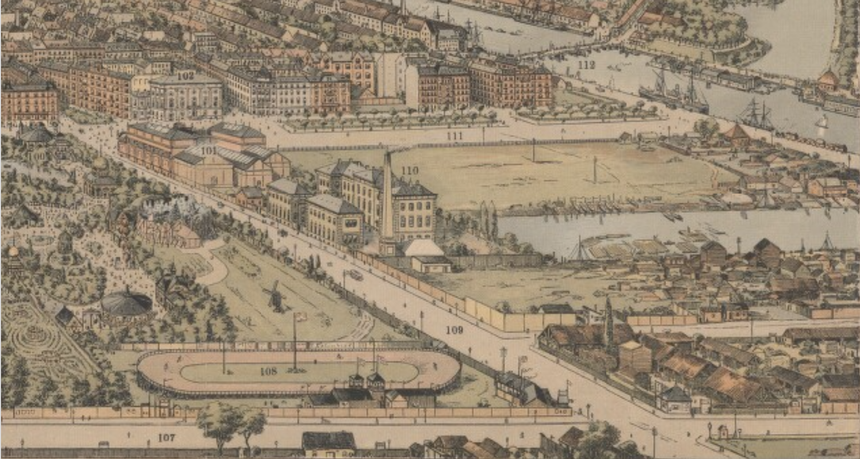 A detail from a drawing showing the street Ny Vestergades Forlængelse - now Tietgensgade - in Copenhagen, Denmark